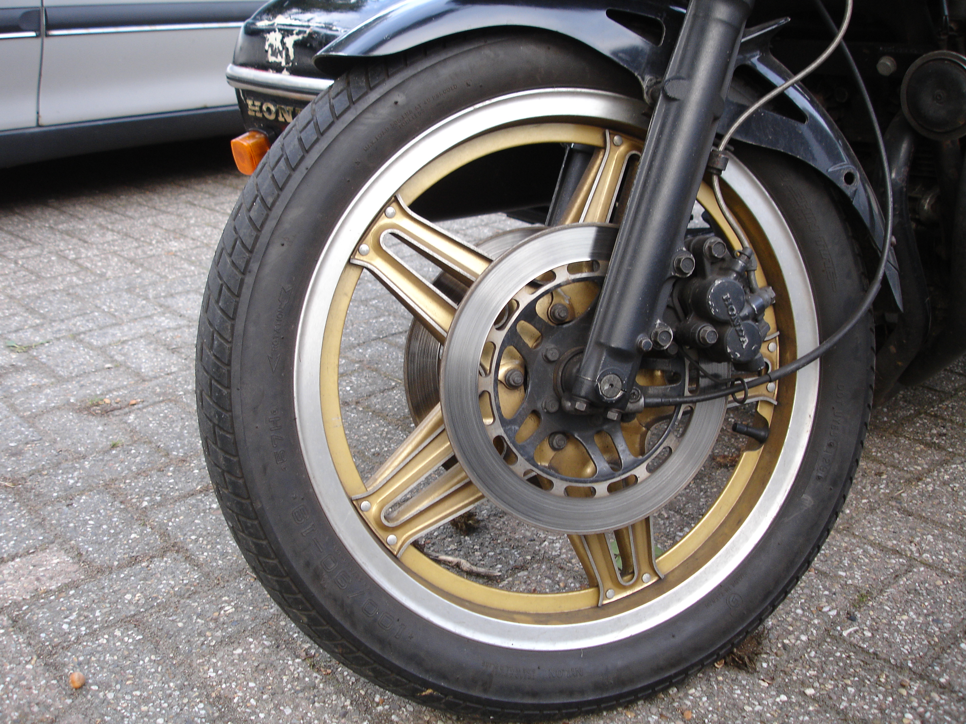 Honda Comstar Rim